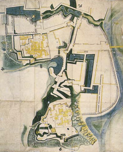 Map of Sendai Castle, Miyagi Prefectural Library, Japan